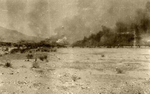 A Mahsud village burning in 1917, during a British punitive expedition.